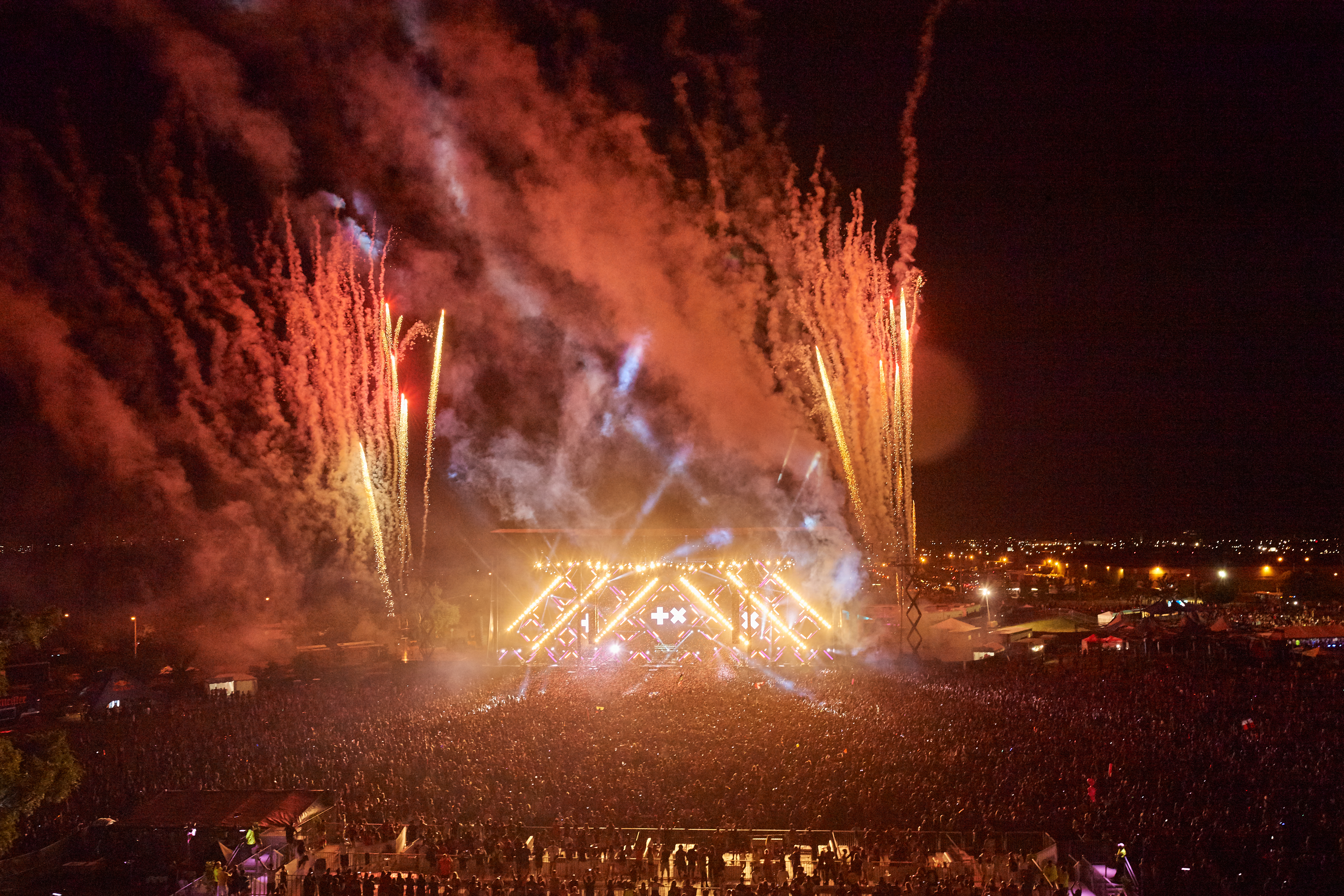 "Martin Garrix closed out Day 2 at Veld Music Festival to pyrotechnics and fireworks."